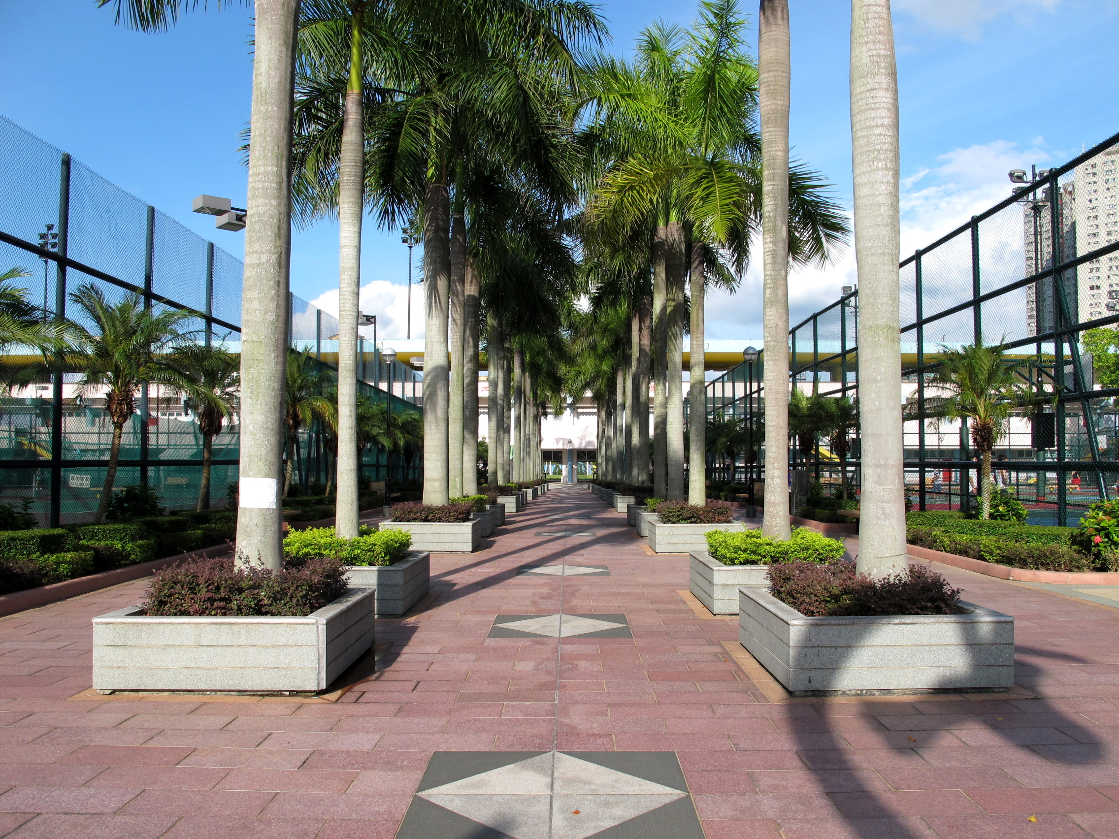 North District Sports Ground Entrance